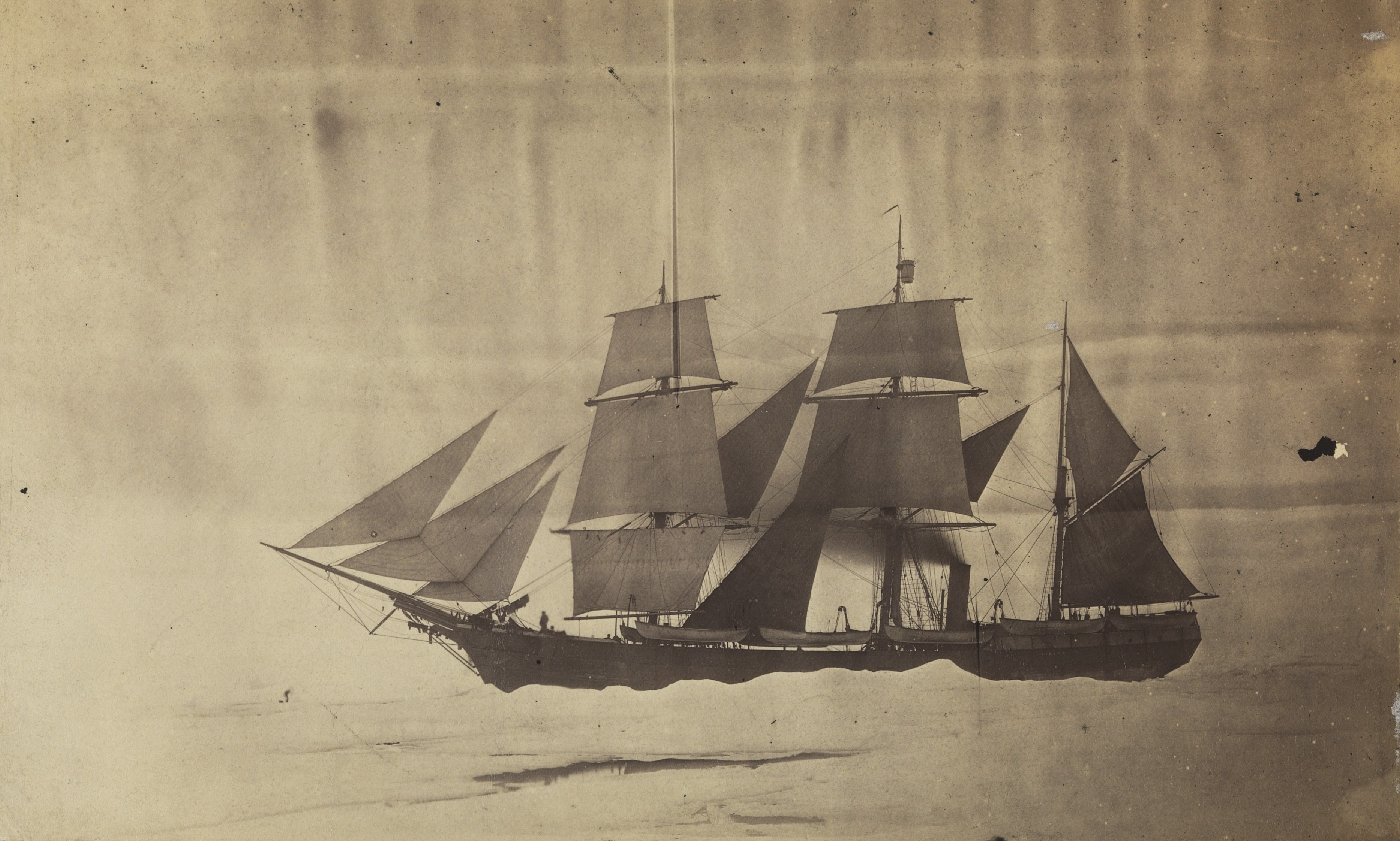 The seal hunting vessel, the bark «Viking», in the ice. This is one of the pictures from a trip with seal hunters to Vestisen in March to July, 1882.